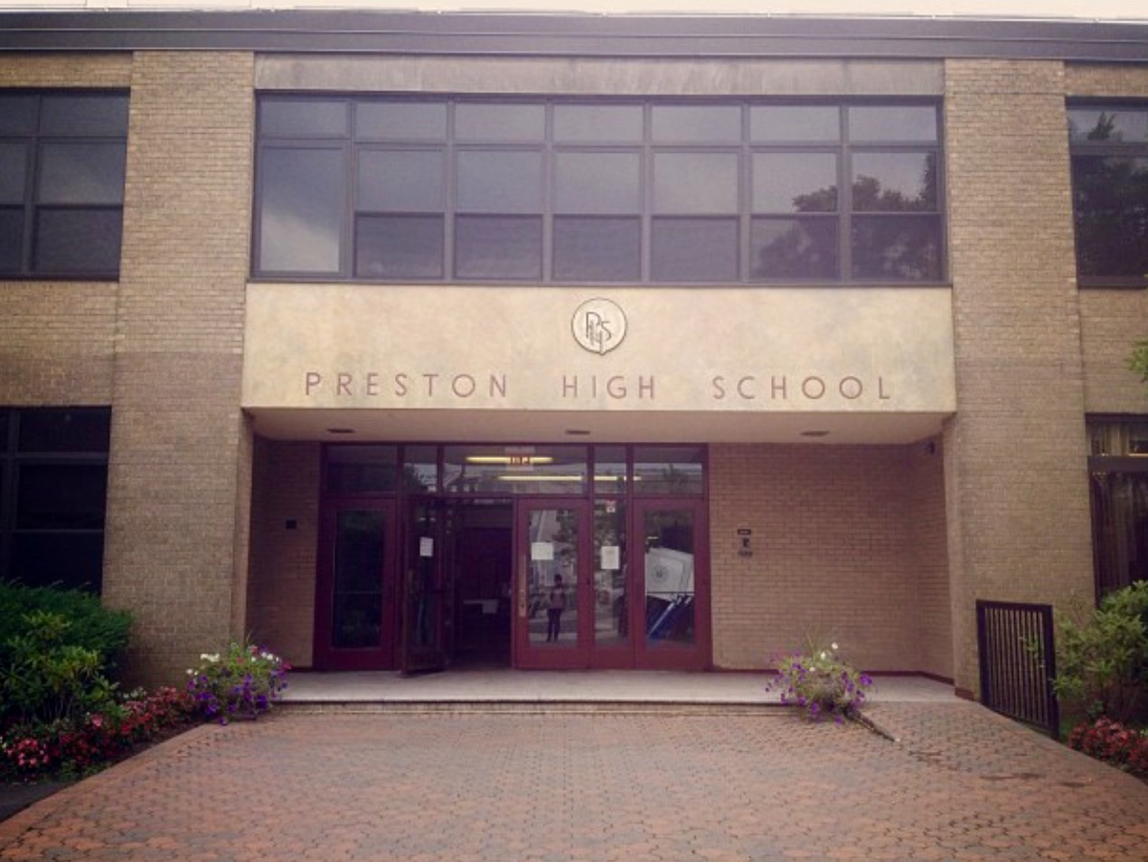 Front entrance of Preston High School's campus.